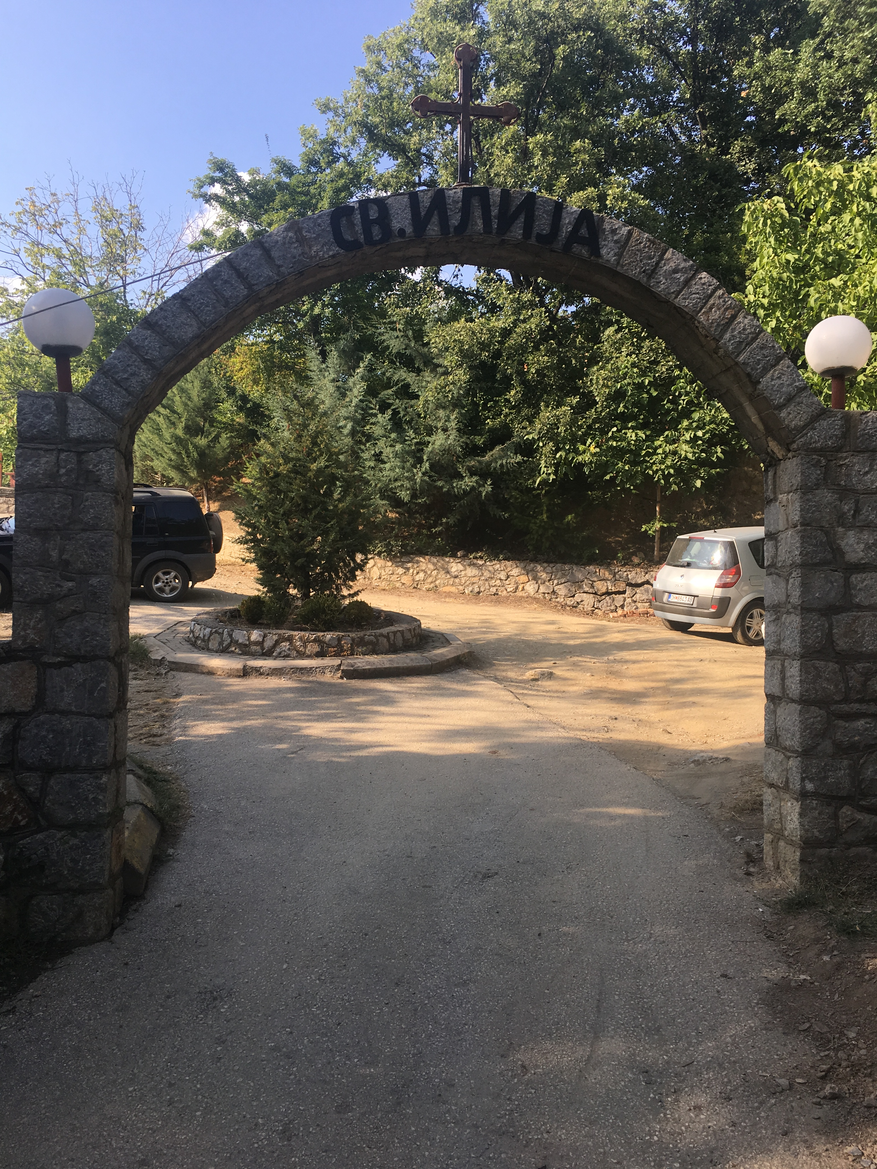 The gate of St. Elijah Church's yard near the village of Velgošti